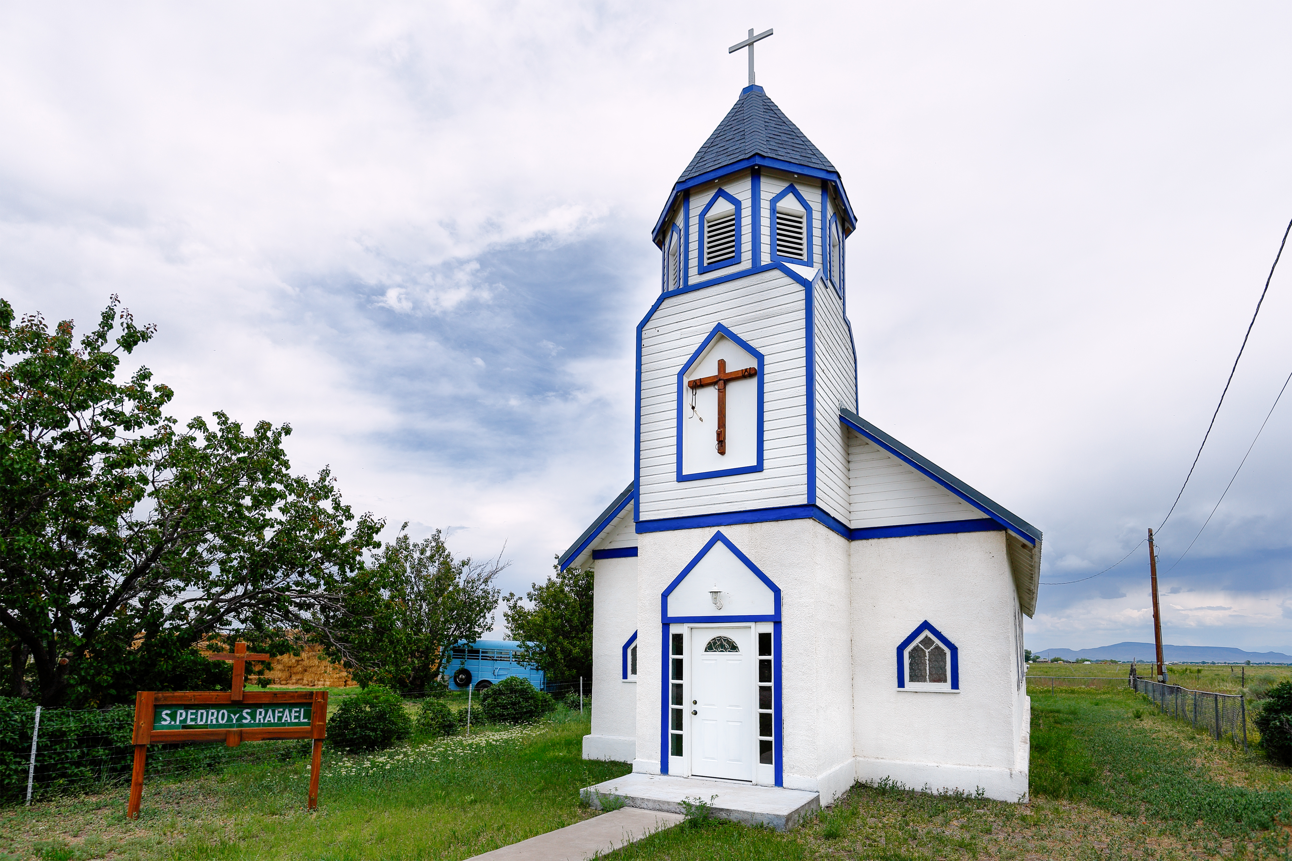 St Pedro & St Rafael - Paisaje, Colorado, 2016